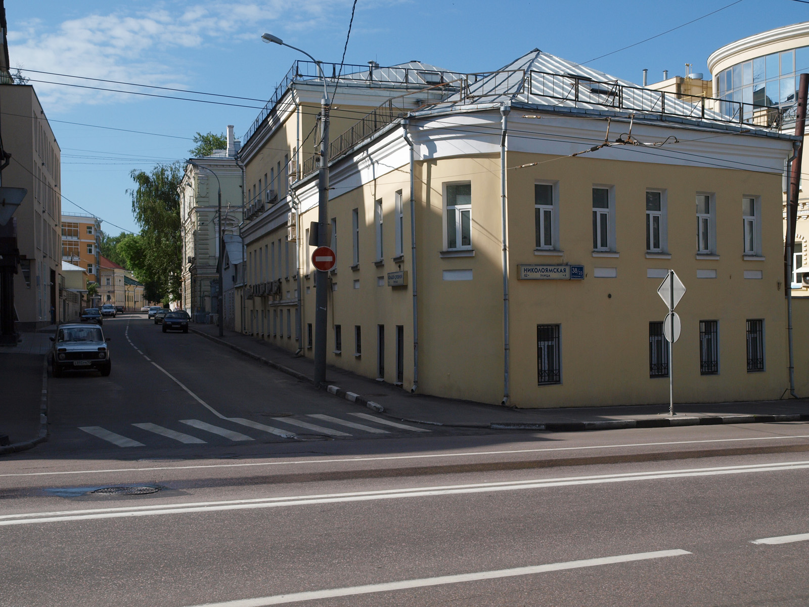 Nikoloyamskaya Street, corner of Bolshoy Drovyanoy Lane, Moscow